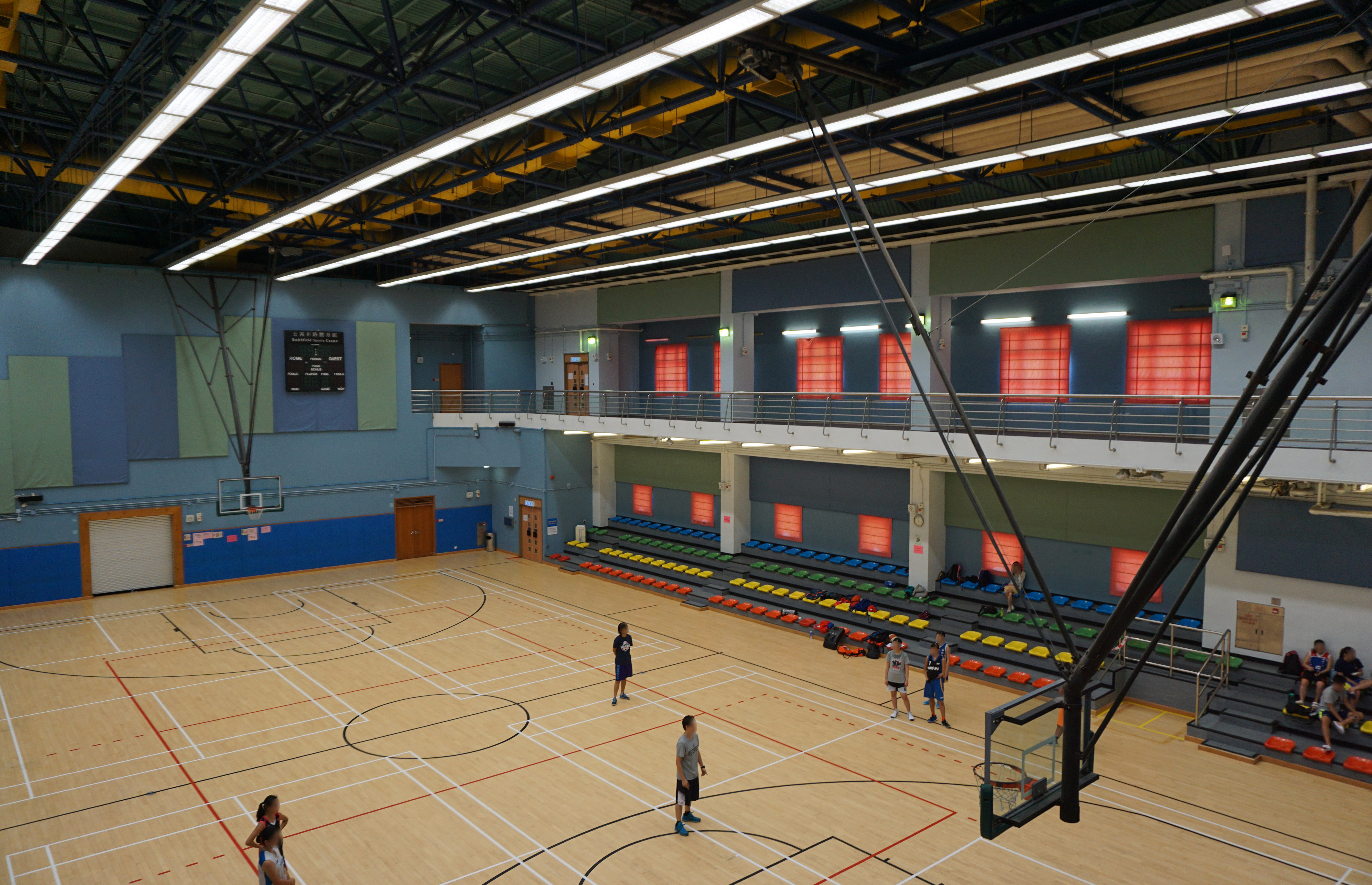 Smithfield Sports Centre in Kennedy Town, Hong Kong.